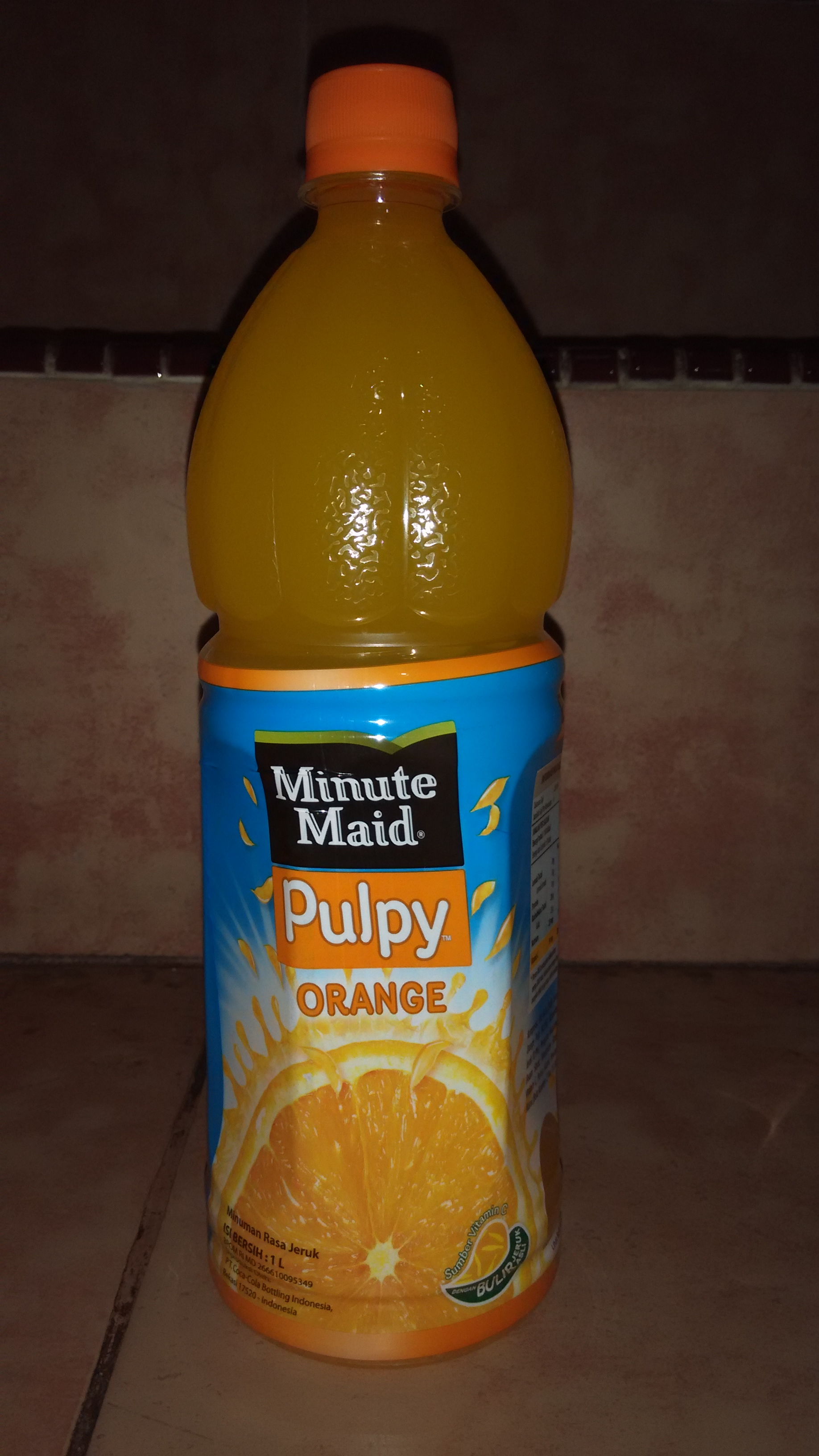 A Minute Maid Pulpy Orange 1000ml PET bottle in Indonesia. Produced in Indonesia.